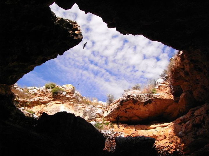 Formed by the percolation of water running through the limestone. Murrawijinie means Bloody hands, as it is known that the caves were utilised by the indigenous people, who have left there octre hand stencils painted in the caves..The caves can be found just off the Eyre Highway Close to the Nulabor Roadhouse/Motel